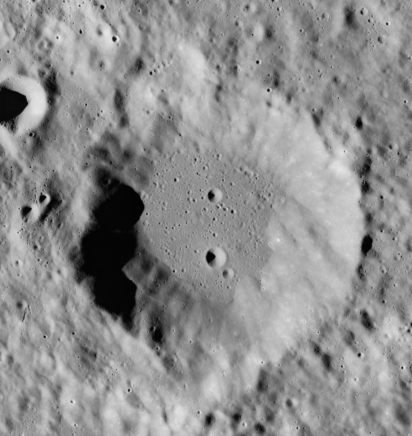 Bergstrand crater on the image AS17-M-0478 (North is approximately on top).